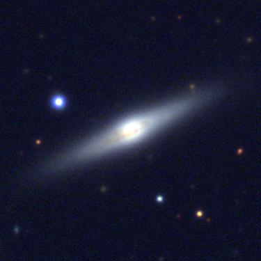 PanSTARRS image of NGC 717.